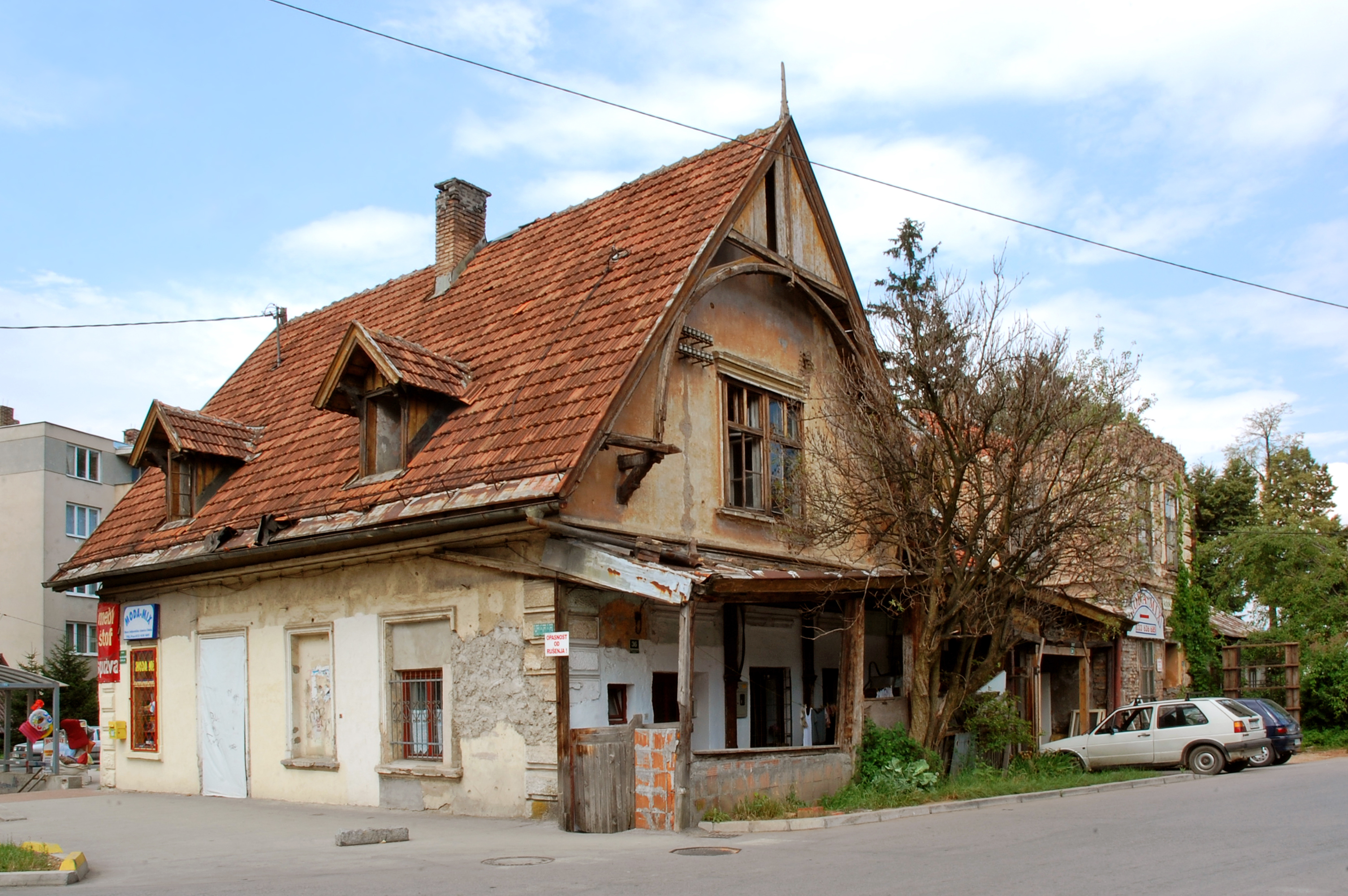 Front side of the former narrow-gauge train station at Ilidža